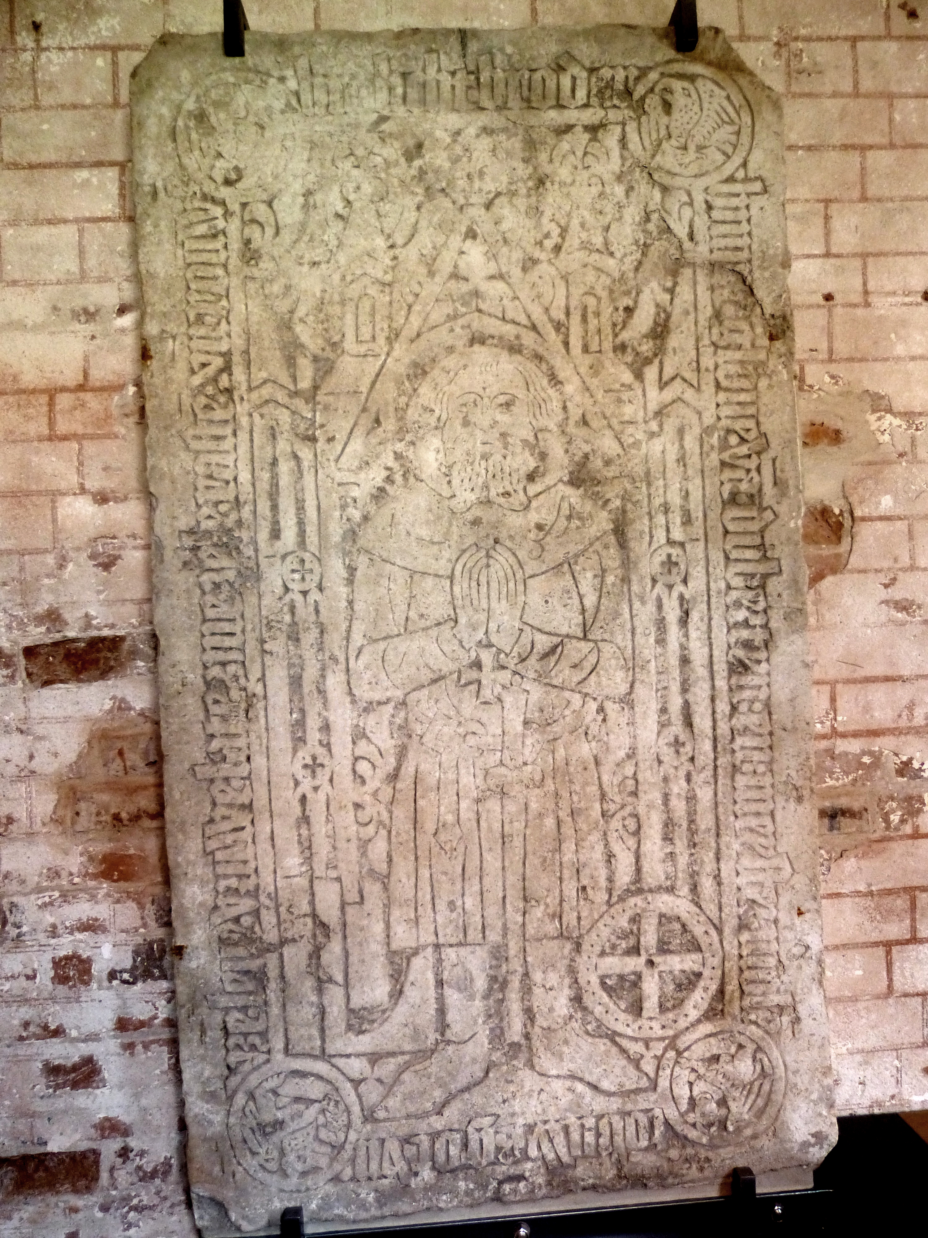 Dobbertin ( Mecklenburg ). Monastery: Cloisters ( 13th century ) - Ledger stone for Hinrik Glove, mill constructor, died in 1371 ( oldest ledger stone in Dobbertin ).